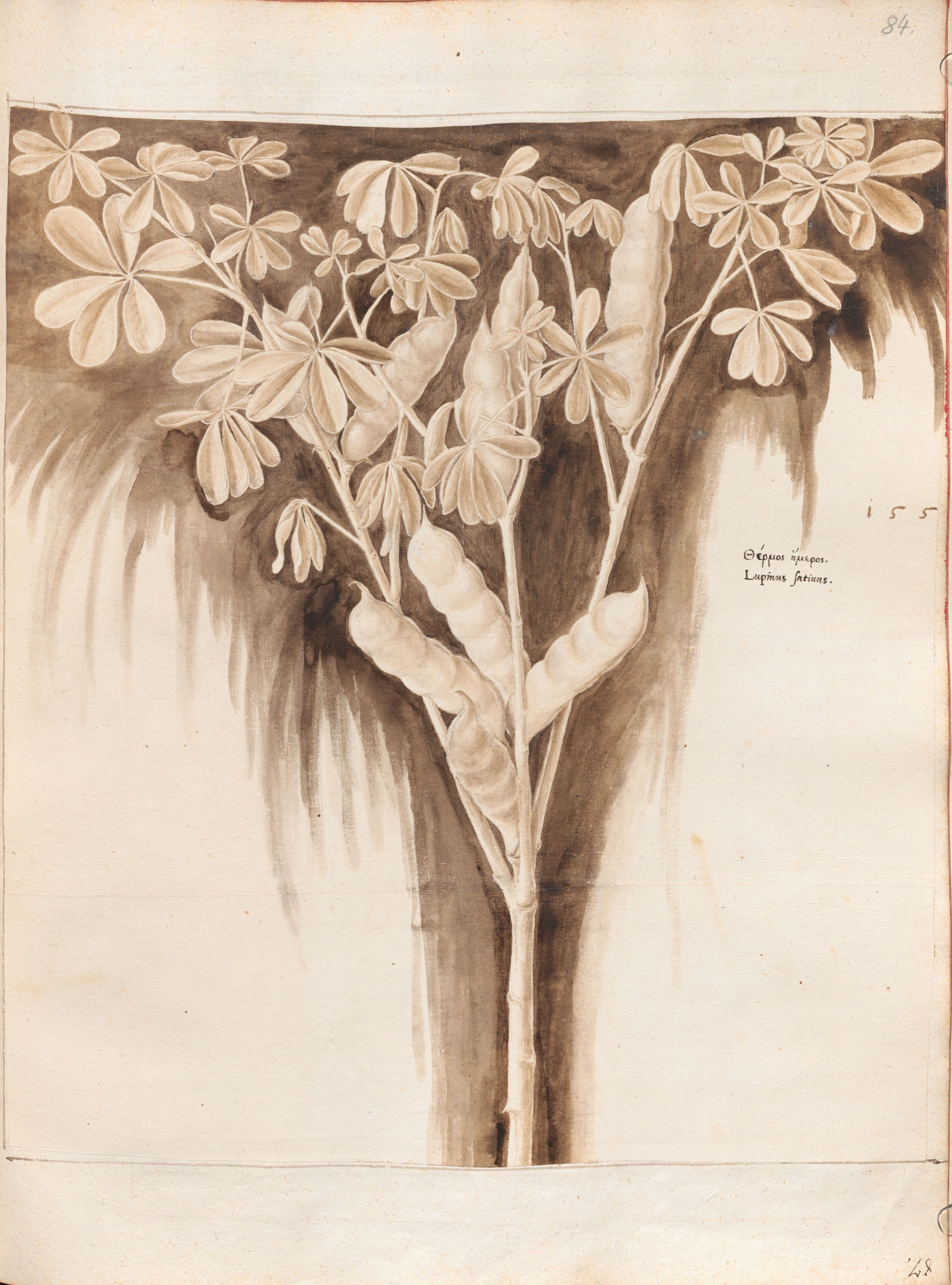 Lupinus_sativus: ONB_Cod._Min._42, f._84